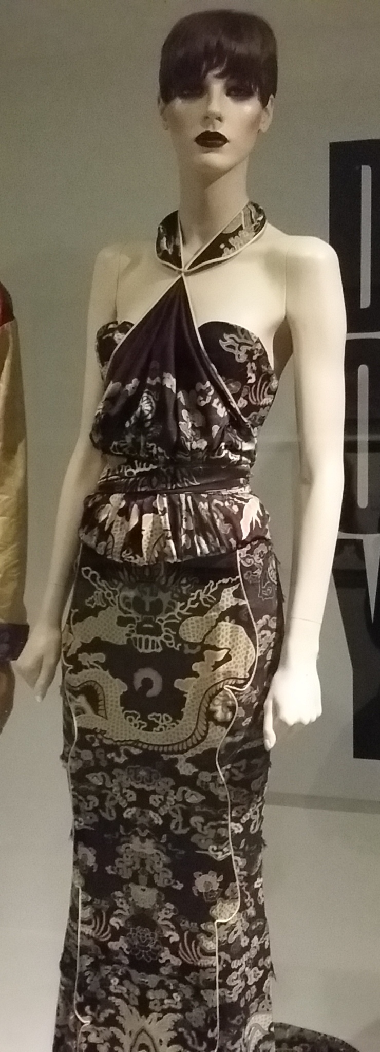 Evening gown in black satin with a Chinese dragon printed design. By Tom Ford for Yves Saint Laurent Rive Gauche. Chosen as the Dress of the Year for 2004.